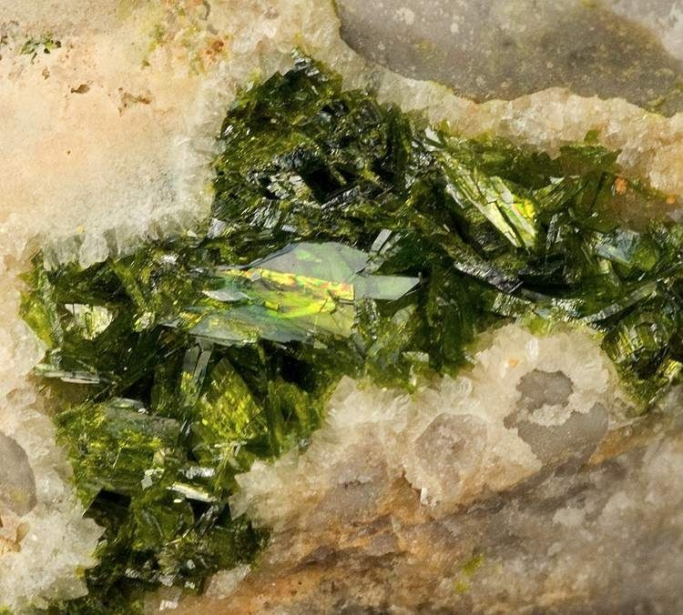 Rodalquilarite, Alunite Locality: Wendy open pit, Tambo Mine, El Indio deposit, Elqui Province, Coquimbo Region, Chile (Locality at ) Size: 5.1 x 3.7 x 1.1 cm. This specimen features rich sprays of rodalquilarite crystals, a rare tellurite species, in an alunite rind, with one absolutely giant crystal for the species at nearly 5 mm in size. The crystals are gemmy, sharp, and rich olive-green in color.